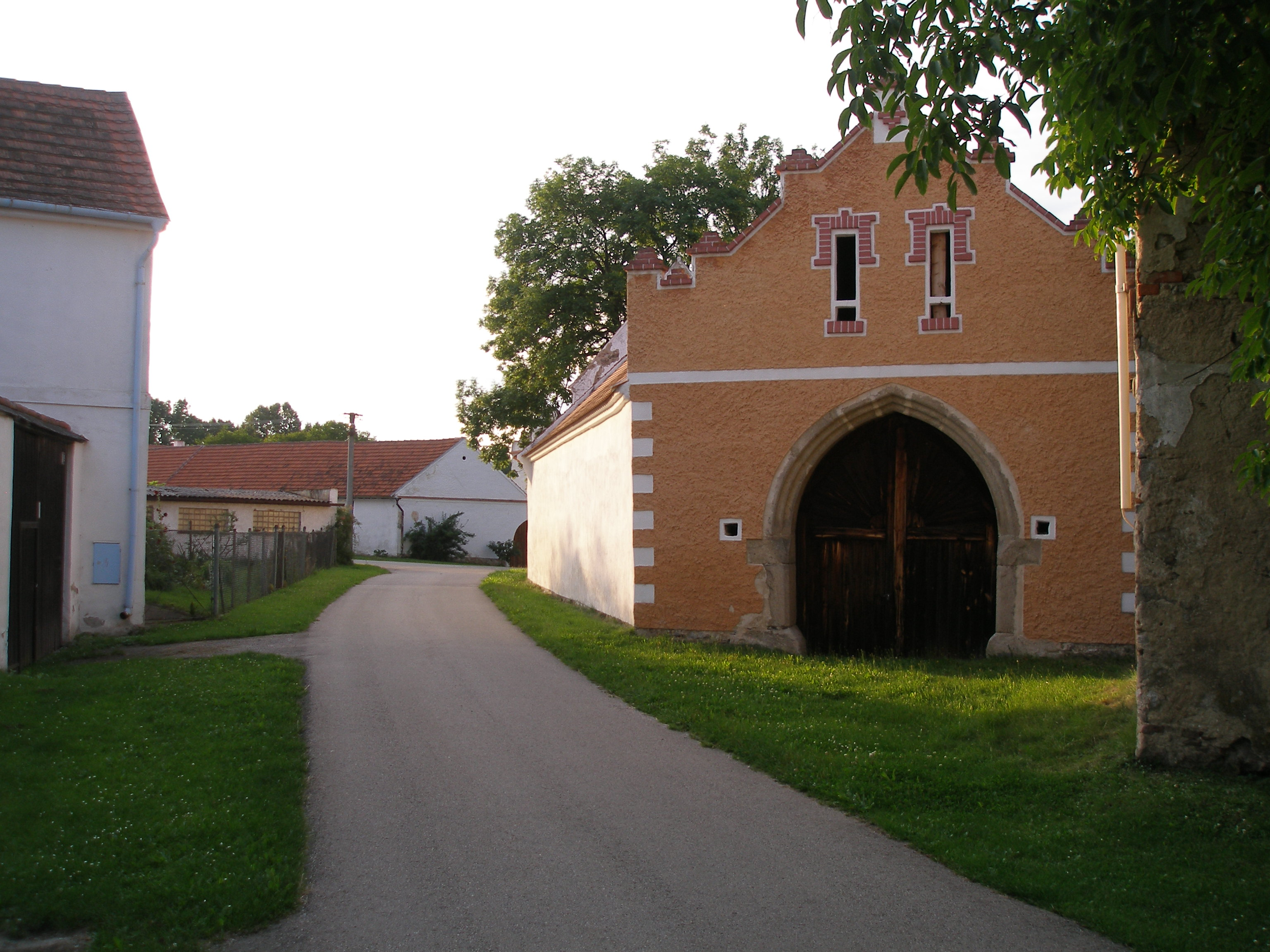 Krnín - the back gate of the house No. 3